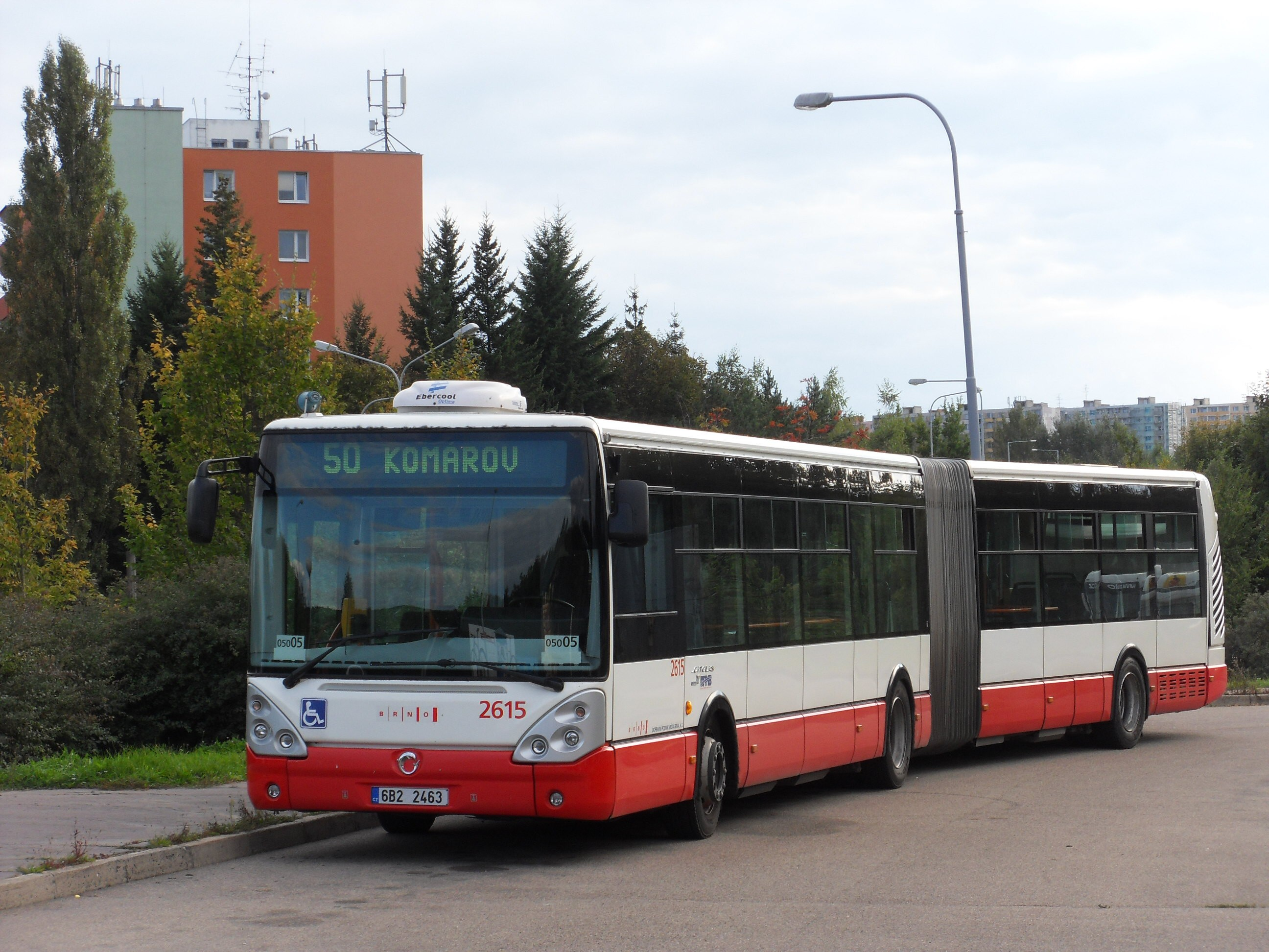 Irisbus Citelis 18M bus of Dopravní podnik města Brna, Brno, Czech Republic